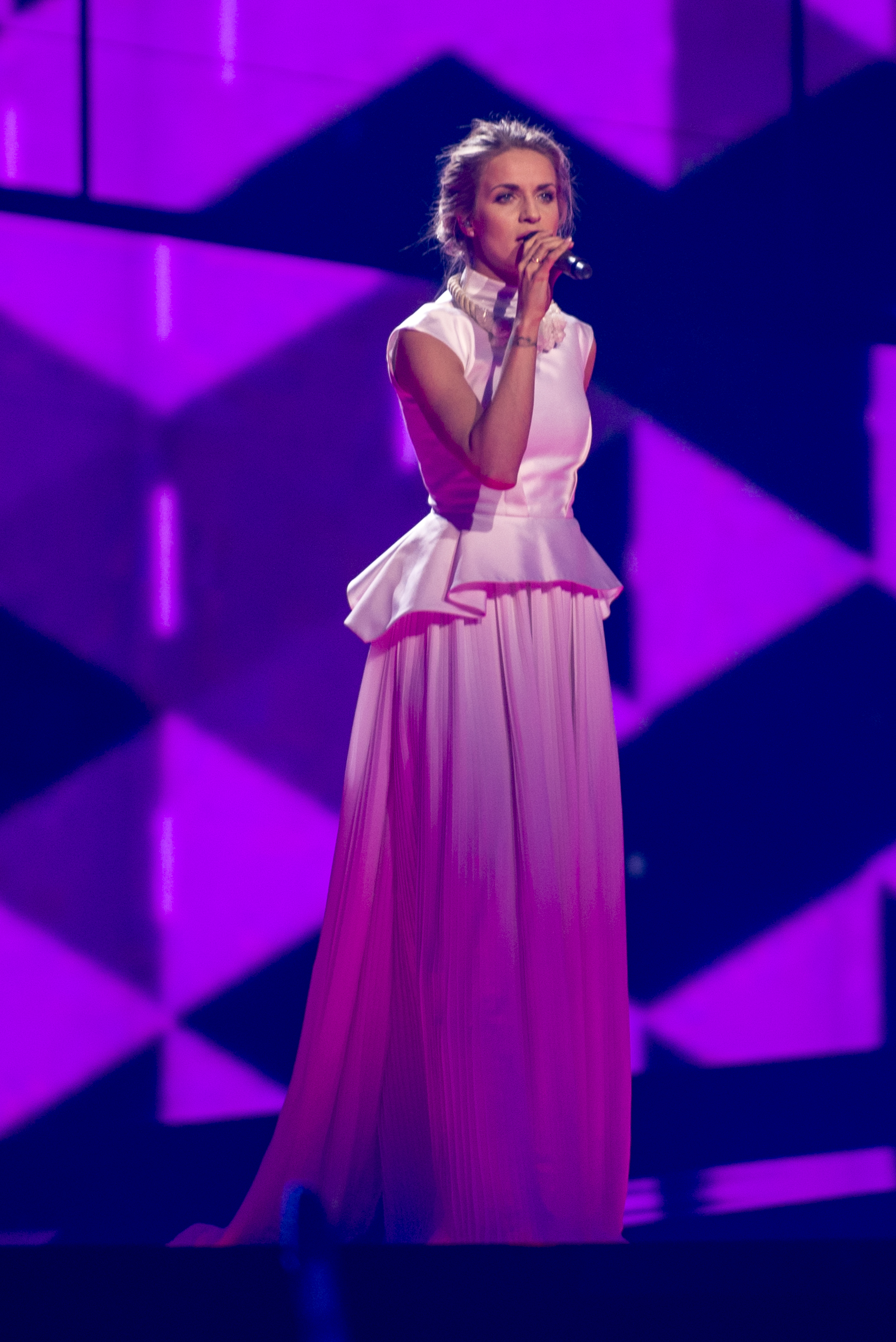 Gabriela Gunčíková representing Czech Republic with the song "I Stand" during a rehearsal before the first semi final of the Eurovision Song Contest 2016 in Stockholm. (Help translate this text)